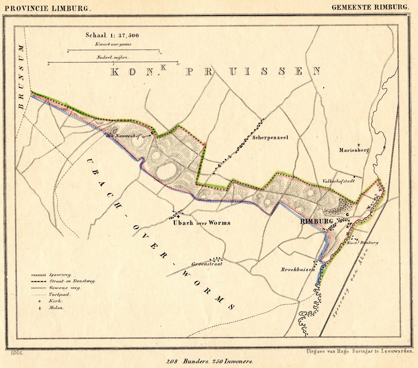 Map from 1866 of the former municipality of Rimburg (province of Limburg, Netherlands). In 1886 Rimburg was absorbed by the municipality of Ubach-over-Worms. In 1982 the municipalities Ubach-over-Worms, Nieuwenhagen and Schaesberg joined to form the municipality of Landgraaf. Rimburg is therefore currently in Landgraaf.